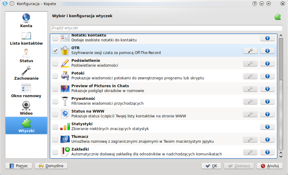 Kopete 4.3 configuration.